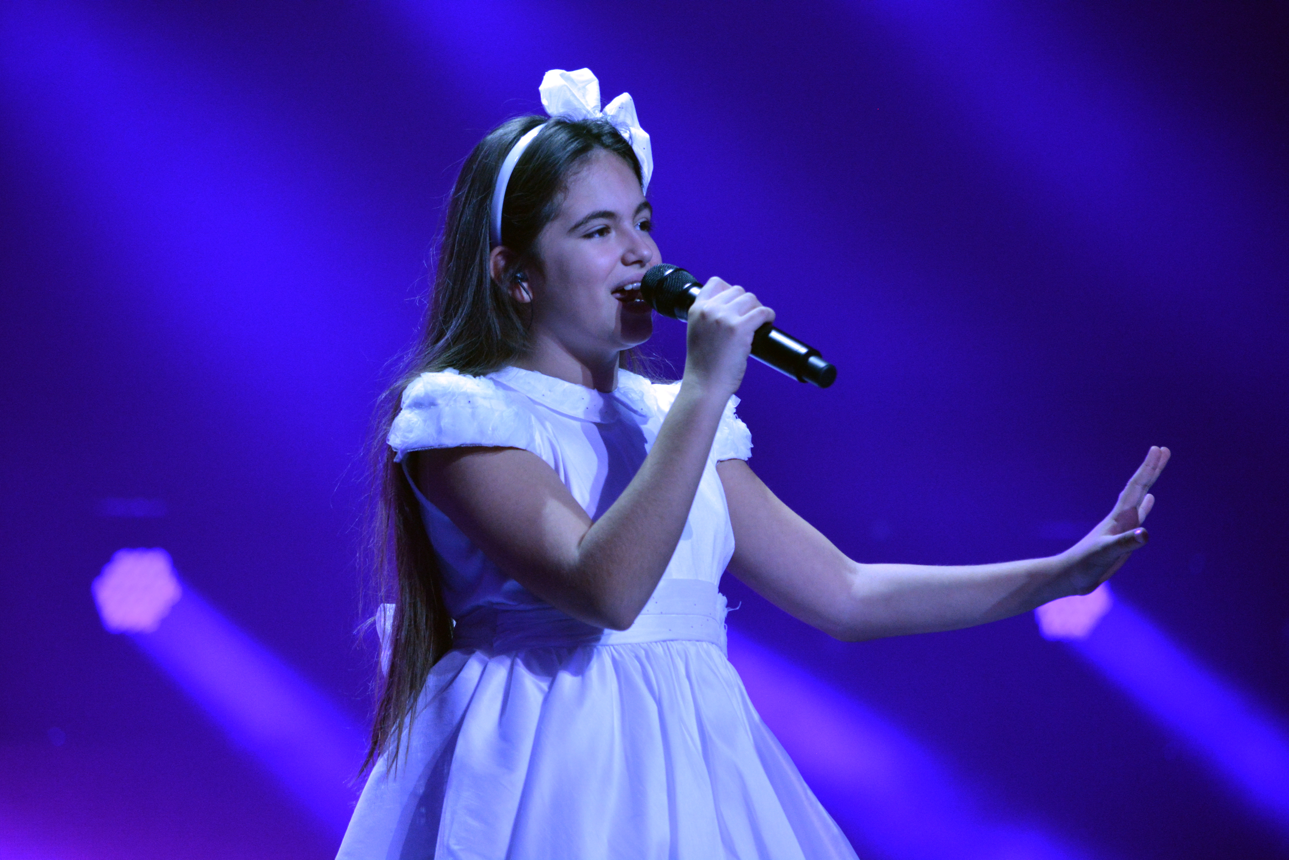 JESC 2013 (Malta) Gaia Cauchi at rehearsal